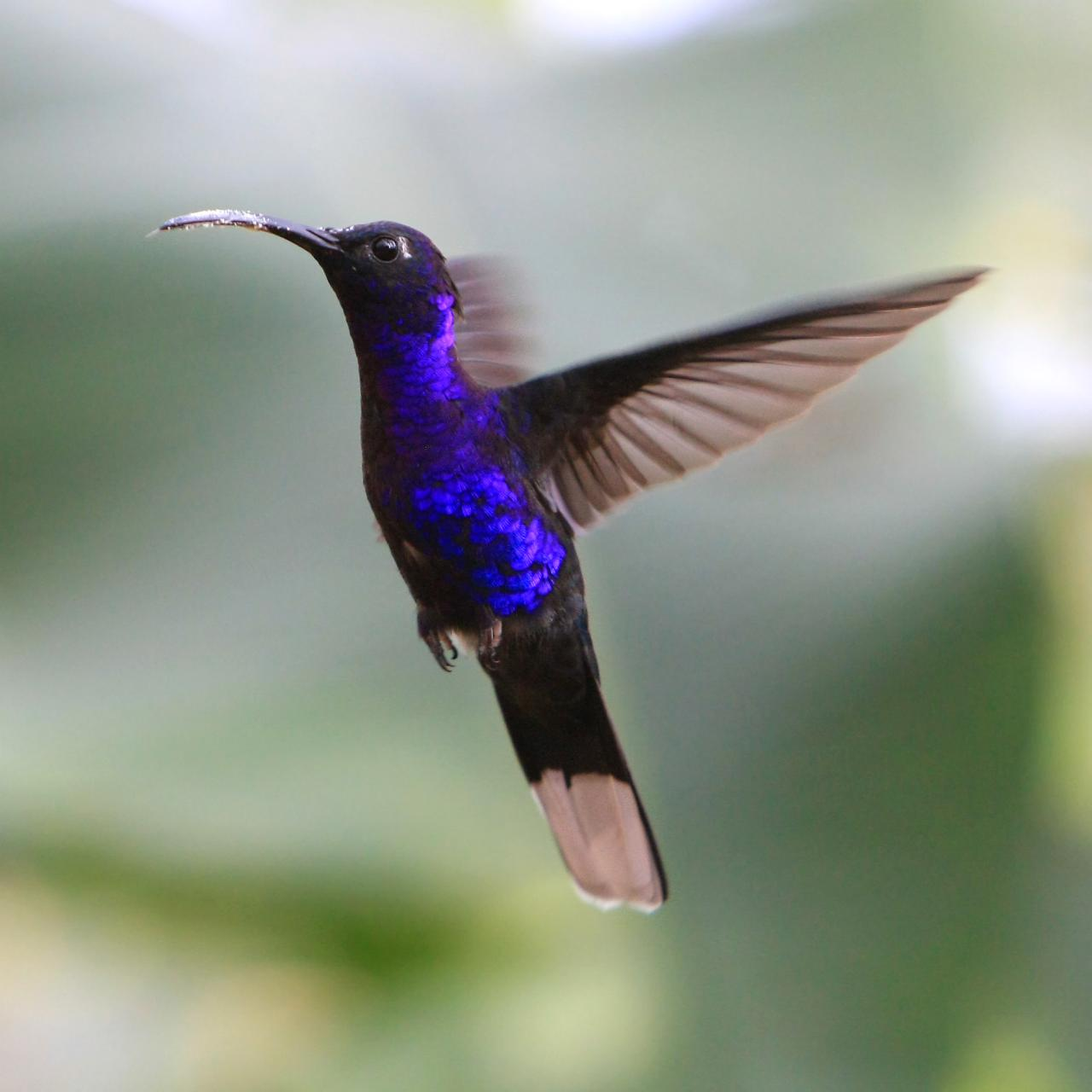 A Violet Sabrewing in Costa Rica.